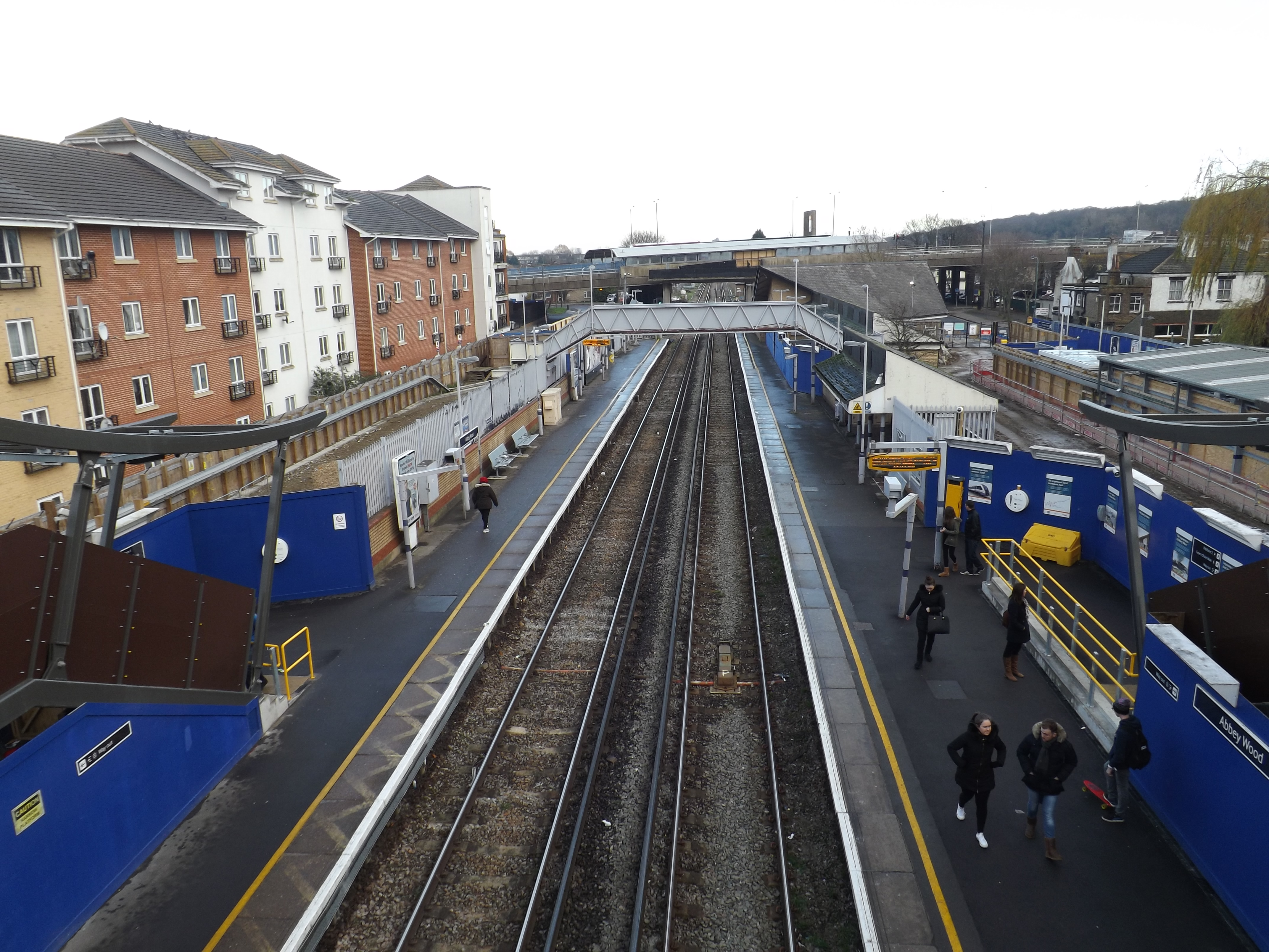 Abbey Wood railway station in December 2014, when it was being rebuilt to be the eastern terminus of Crossrail.